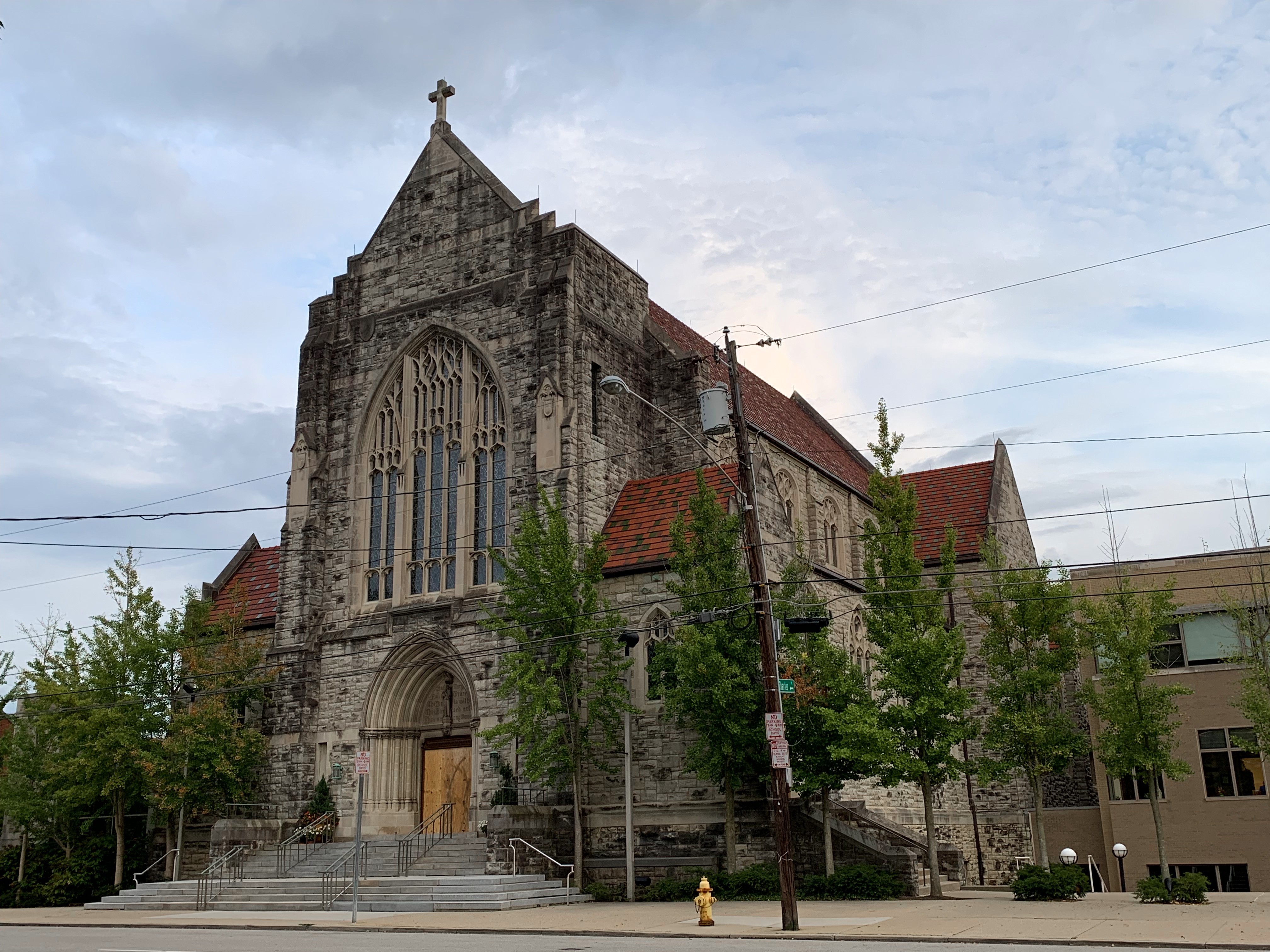 St. Mary Church in Hyde Park, Cincinnati